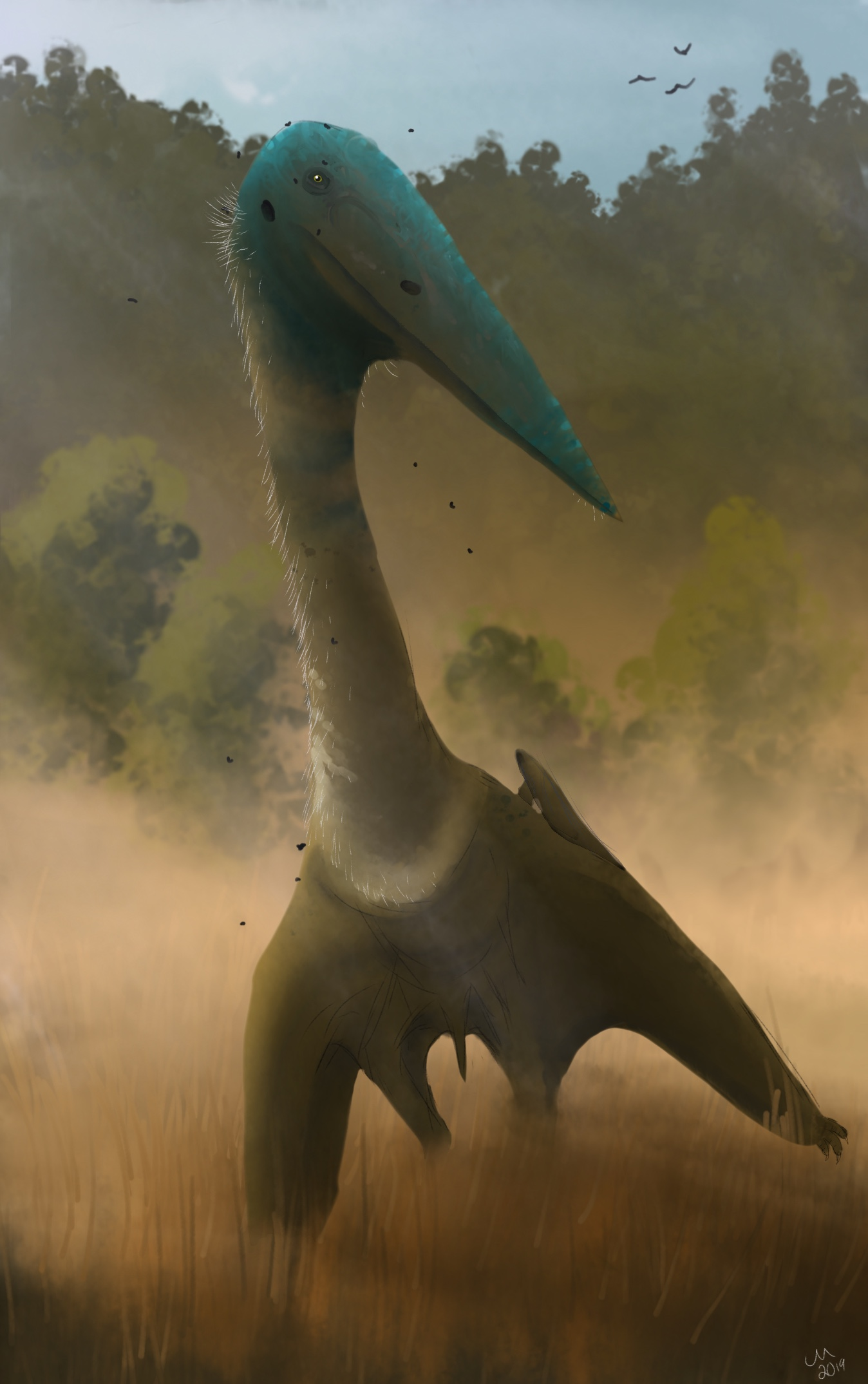 A reconstruction of Volgadraco in an open field with flies buzzing around it.